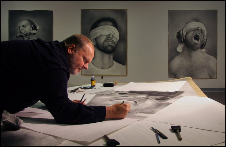 Tim Guthrie working in his studio. Photo by Lindsey Bierman.jpg Other information Lindsey Bierman has agreed to share the photo, but don't know where to send the agreement Evidence: The license agreement will be forwarded to OTRS shortly.